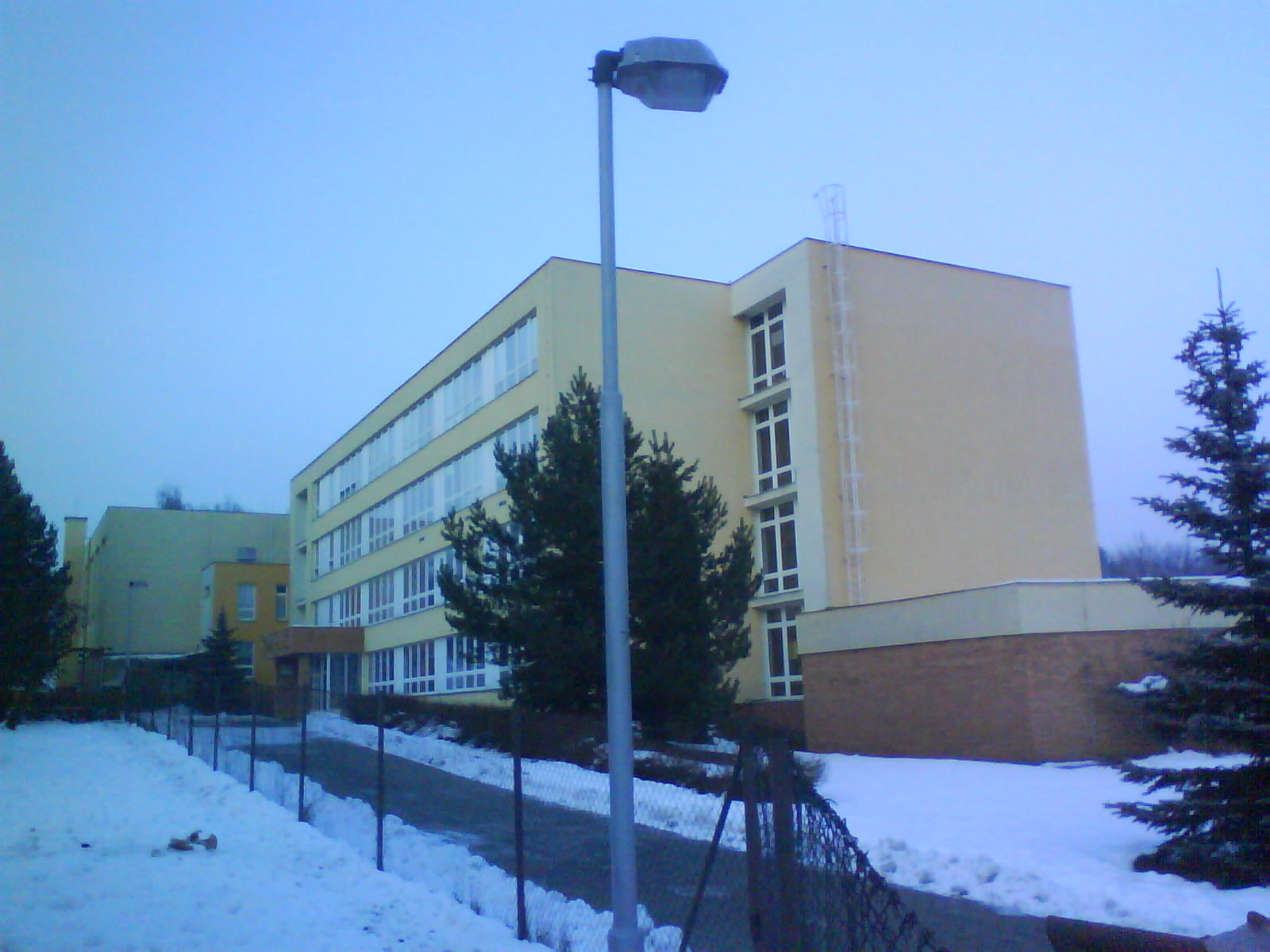 Gymnasium in Rožnov pod Radhoštěm.